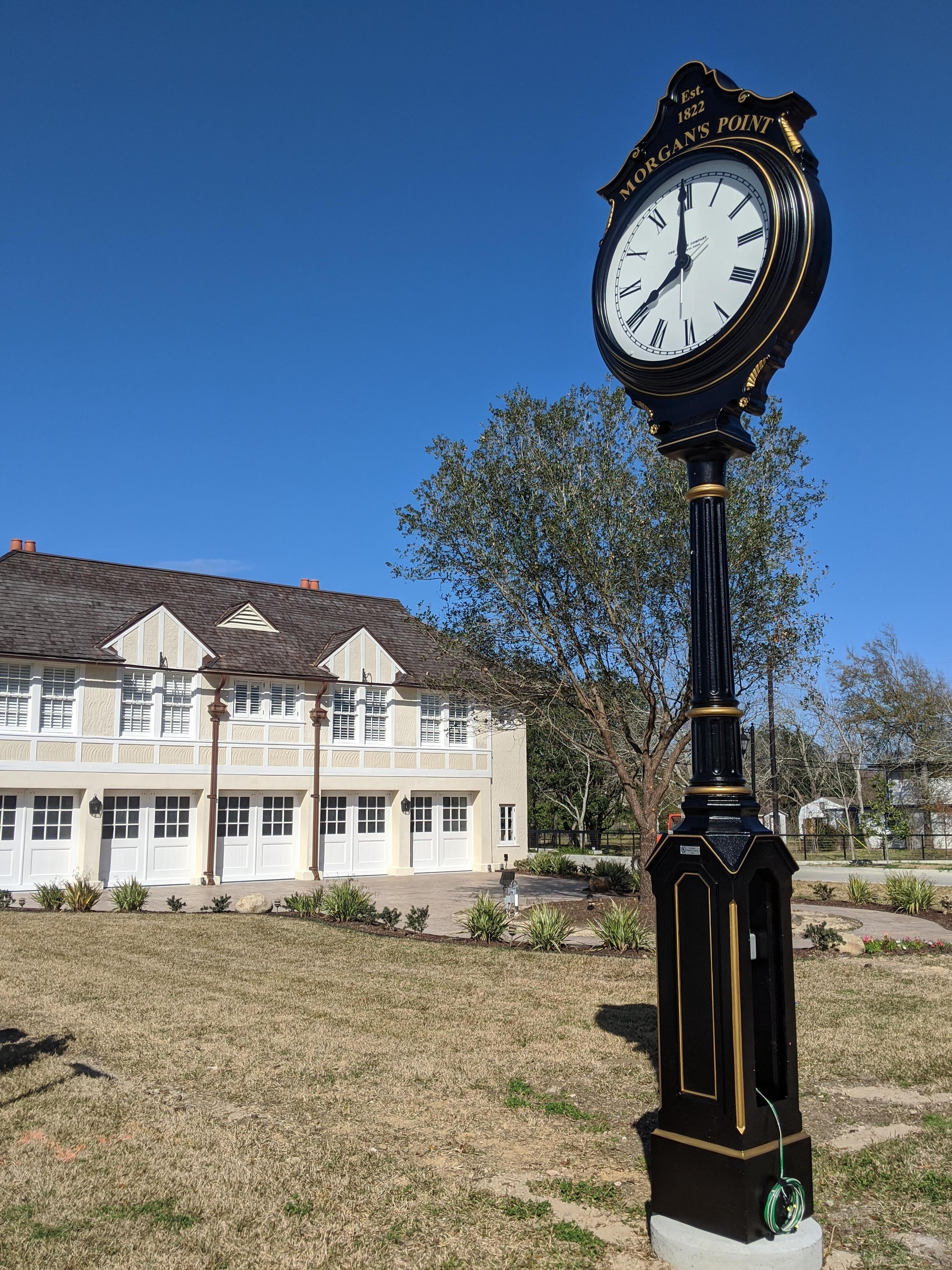 510 Bayridge Rd.